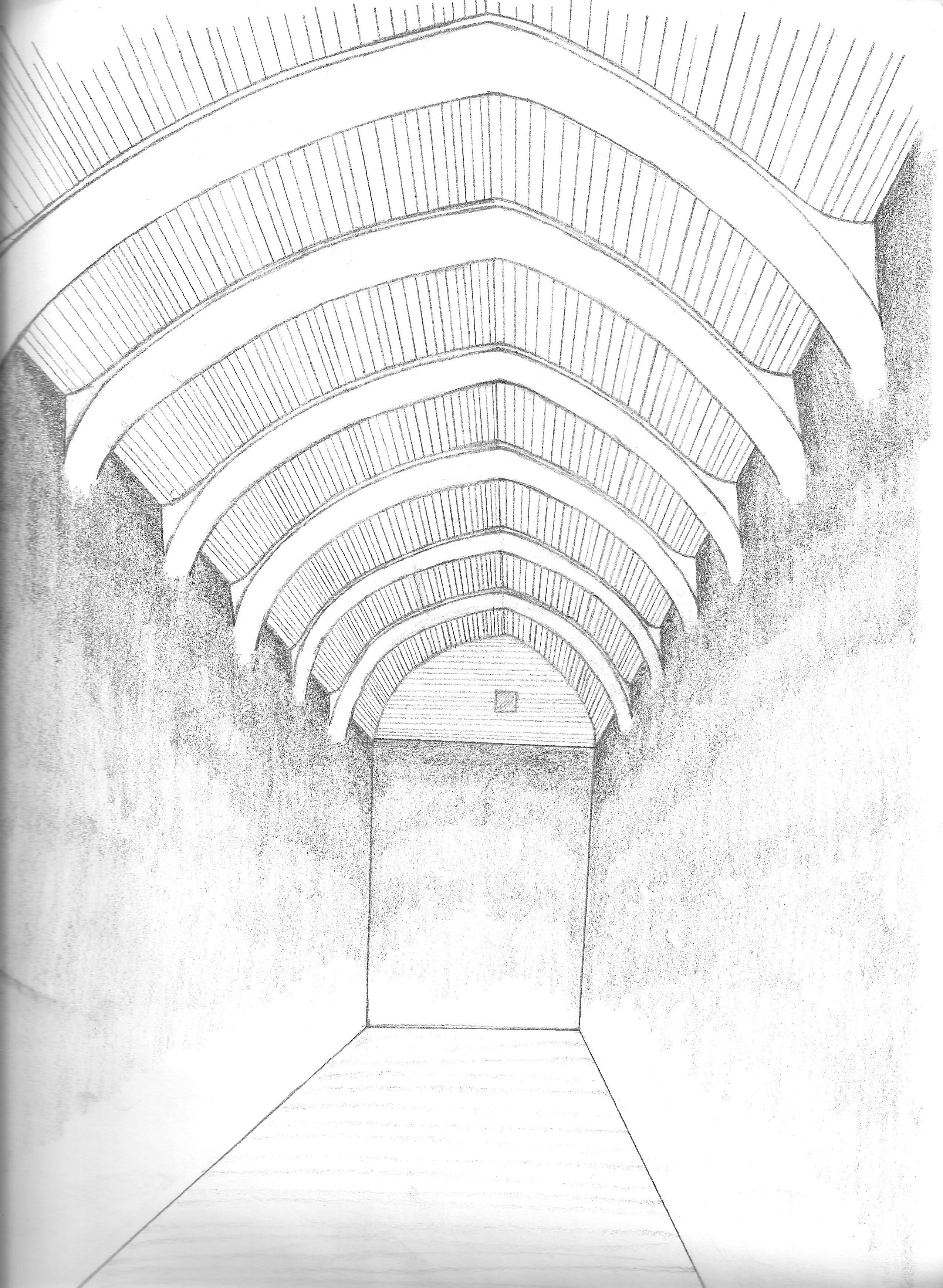 My own on-site rendering of the inside of "Haj Kazem Ab Anbar" (a traditional Persian water cistern), built in the 1800s, located in the old quarters of the city of Qazvin, Iran.